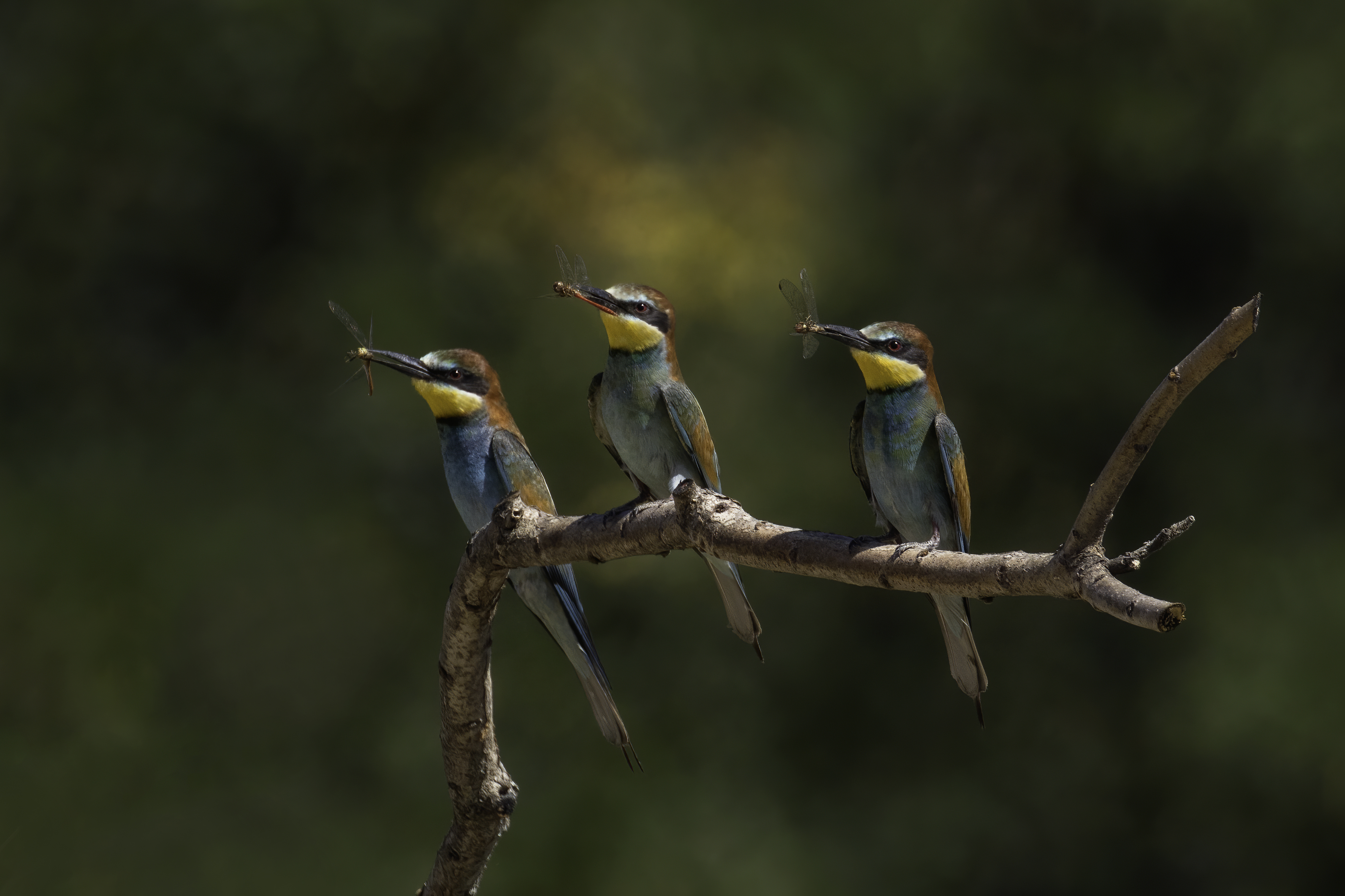 European bee-eaters (Merops apiaster) with dragonflies, near Kondor Tanya, Kecskemét, Hungary